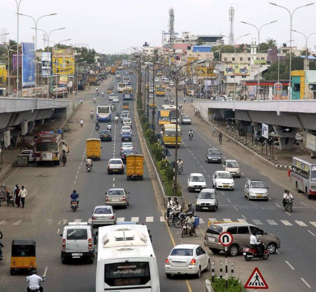 palavaram chennai